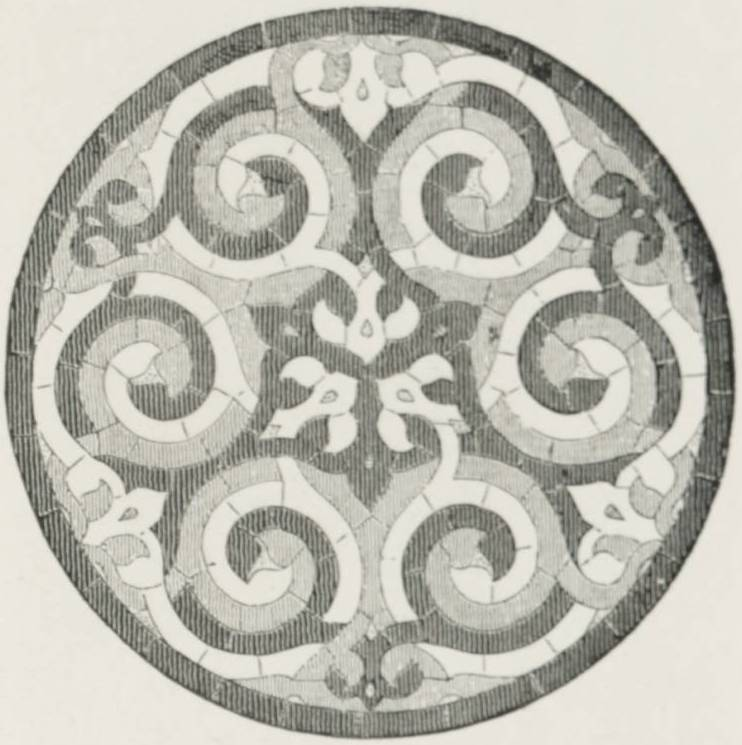 Rosette of a Primary School in Cairo. A round symbol from a Cairene public school.